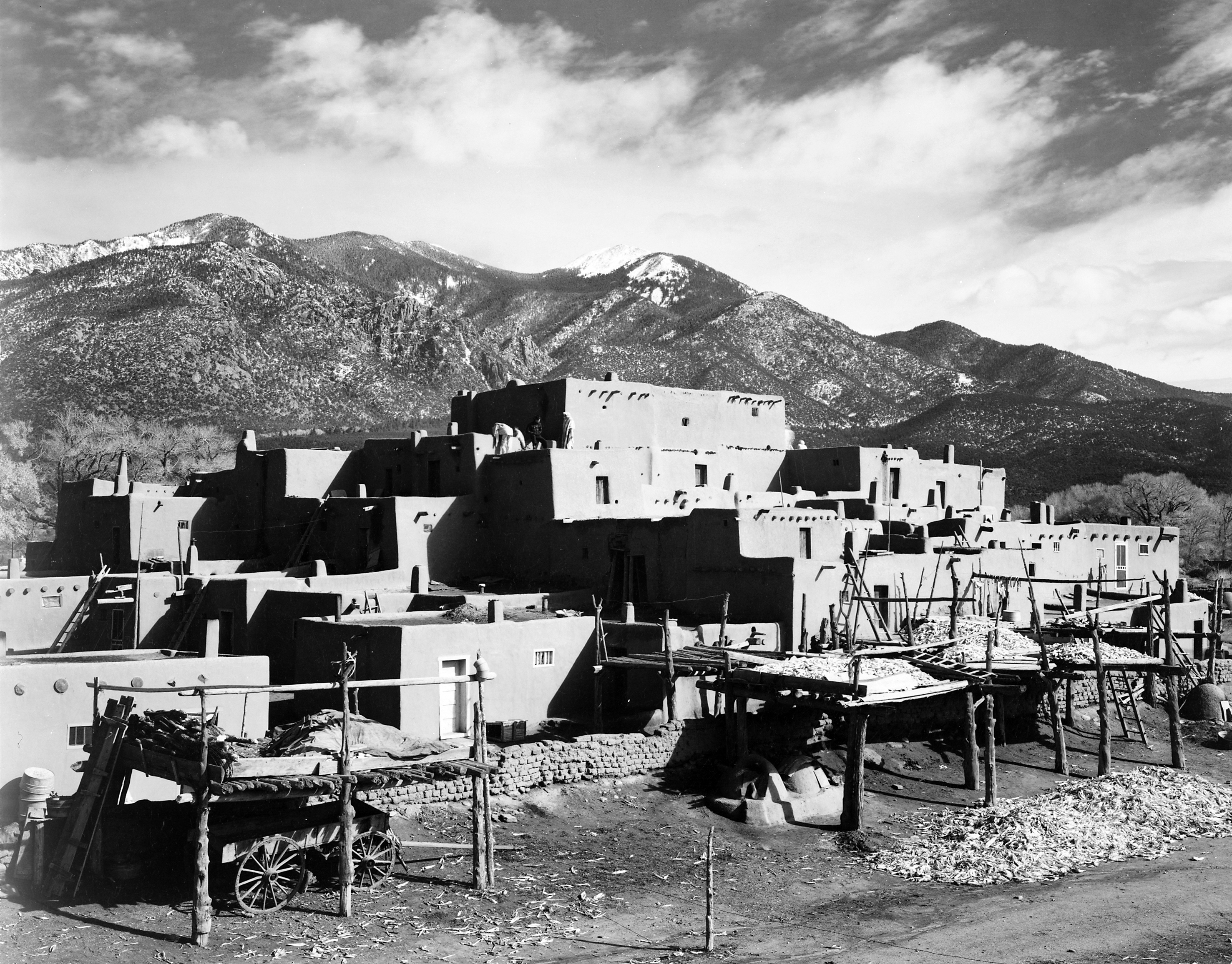 Taos Pueblo, N. Mex., with mountains in the background.